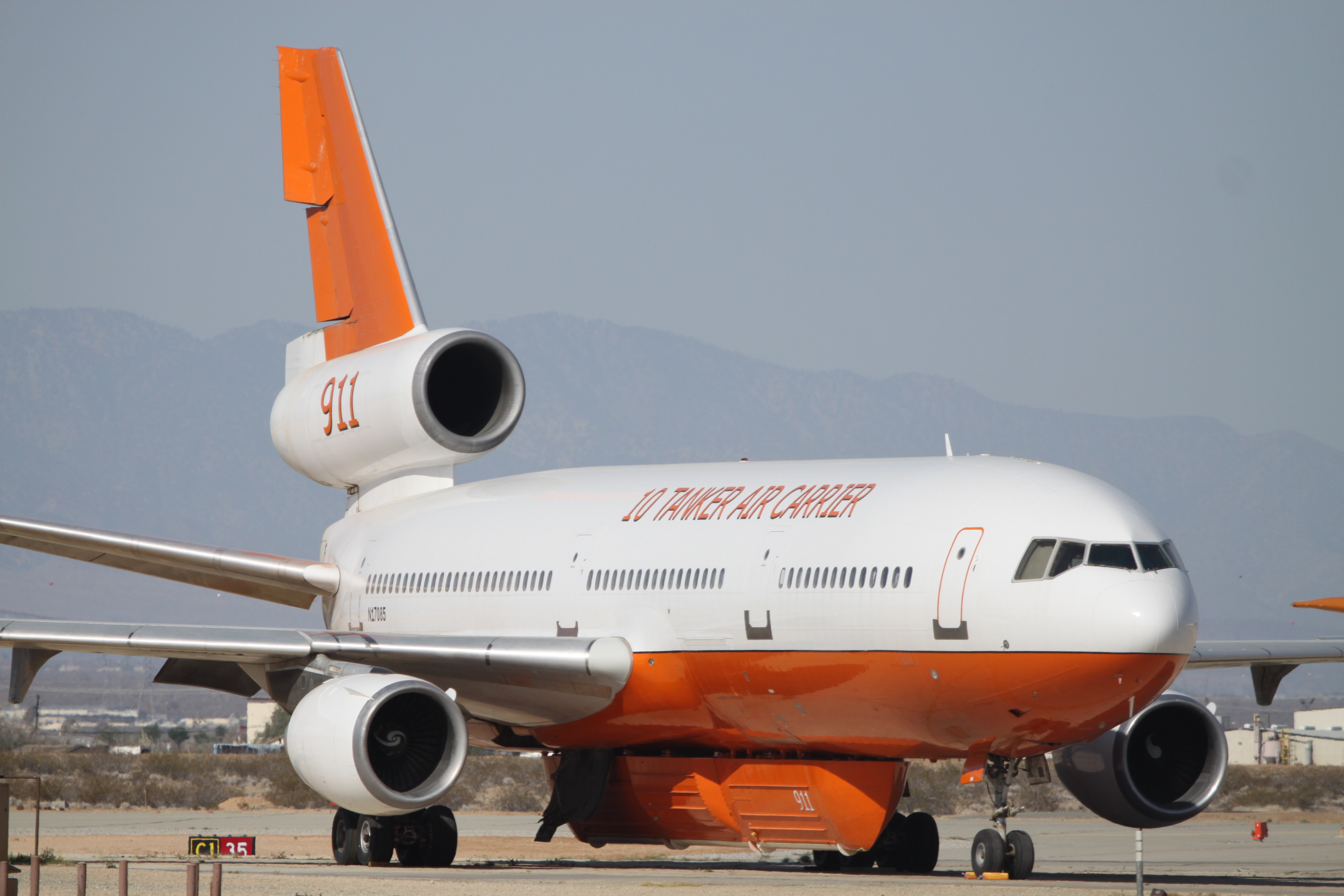 At Victorville